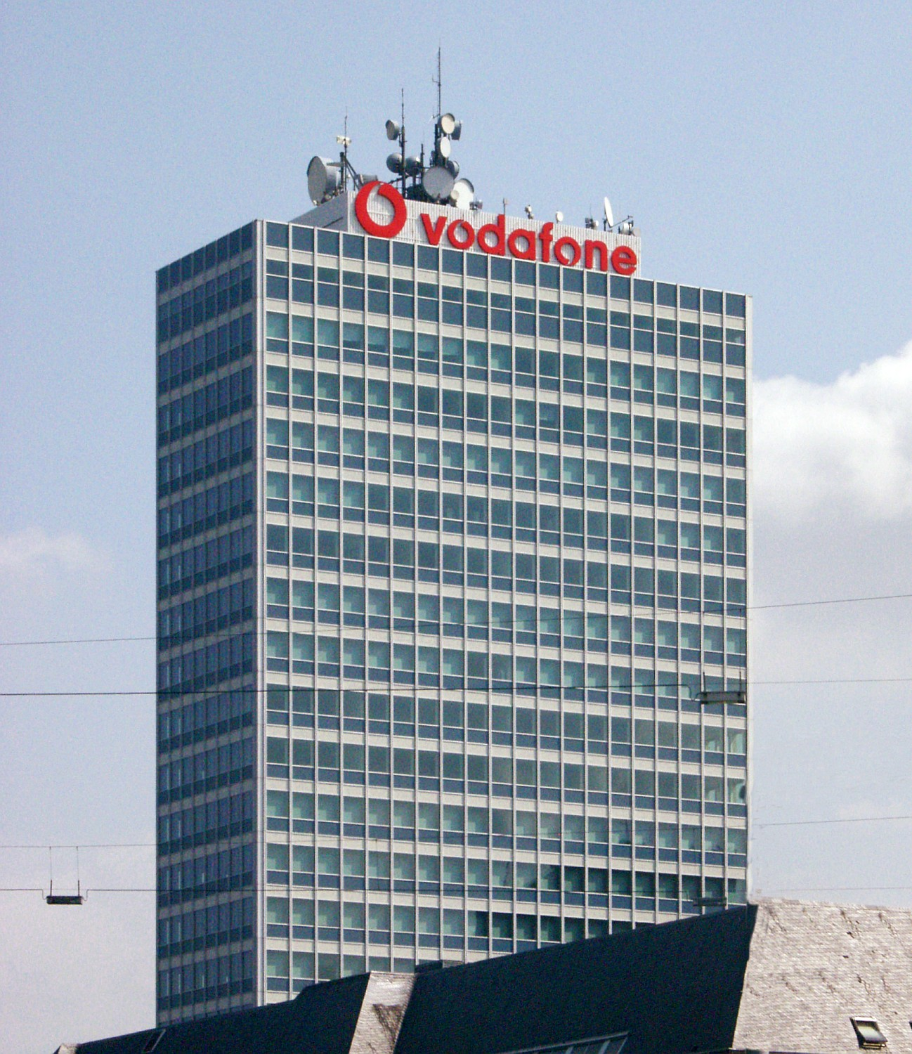 Headquarter of Vodafone in Düsseldorf, Germany